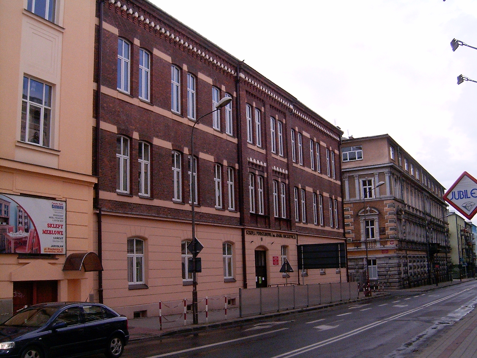 Jarosław, Kraszewskiego street,Adam Mickiewicz Primary School